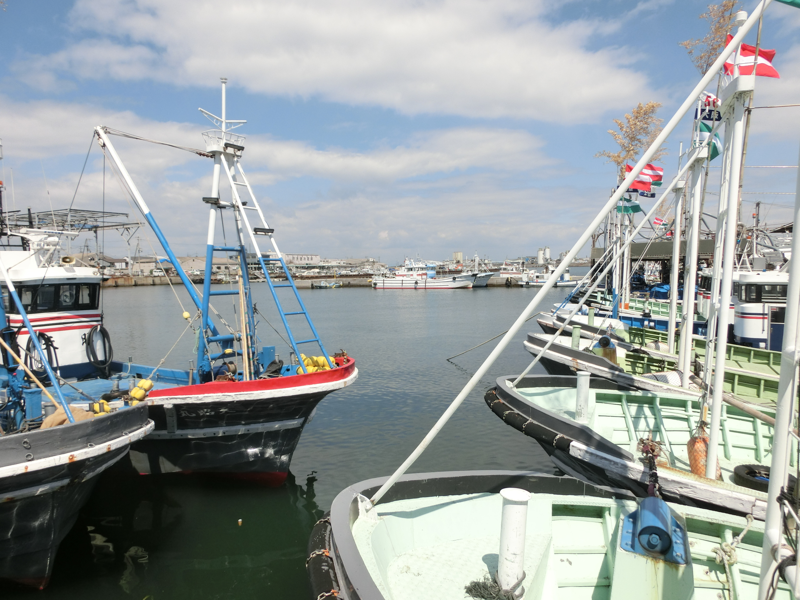 Kishiwada Port